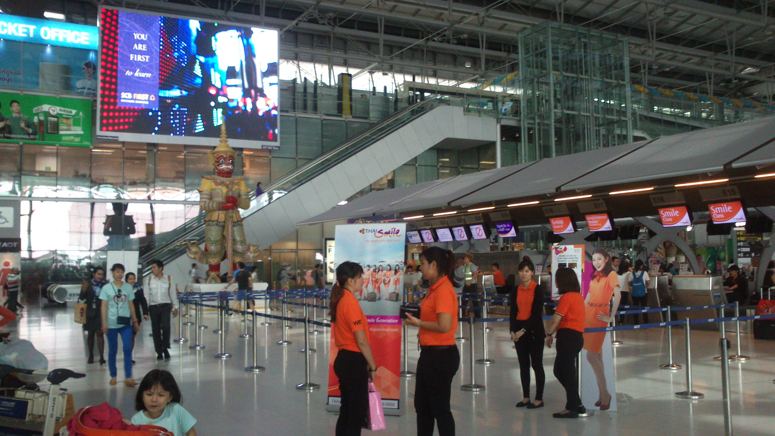 Check-in counter of Suvarnabhumi International Airport - Bangkok